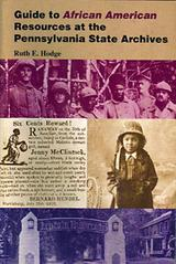 Front cover of "Guide to African American Resources at the Pennsylvania State Archives", which was published in 2000 by Ruth E. Hodges, archivist at the Pennsylvania State Archives (Pennsylvania State Archives, public domain).